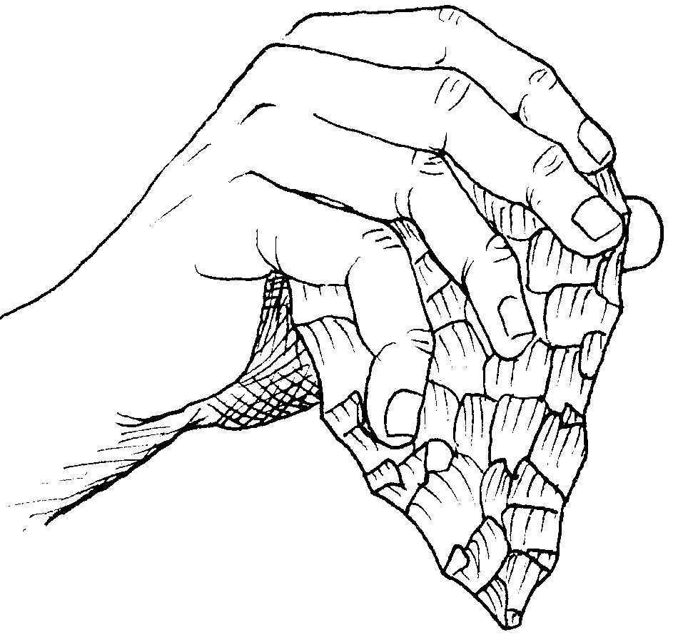 Didactic drawing of a hand holding a hand axe